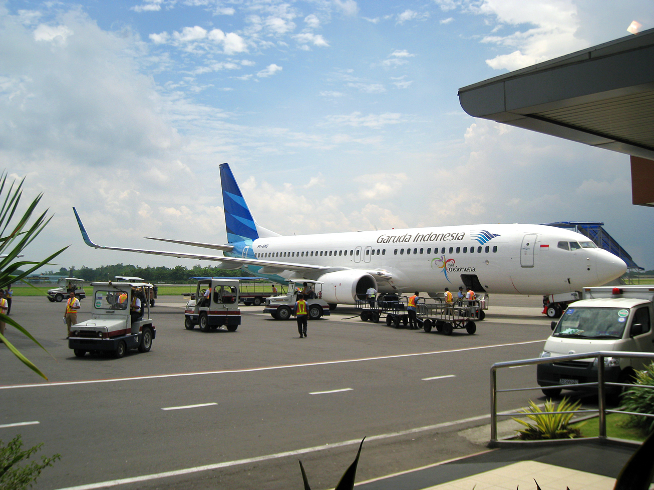 Garuda Indonesia Boeing 737 NG new livery at Adisutjipto International Airport, Yogyakarta.